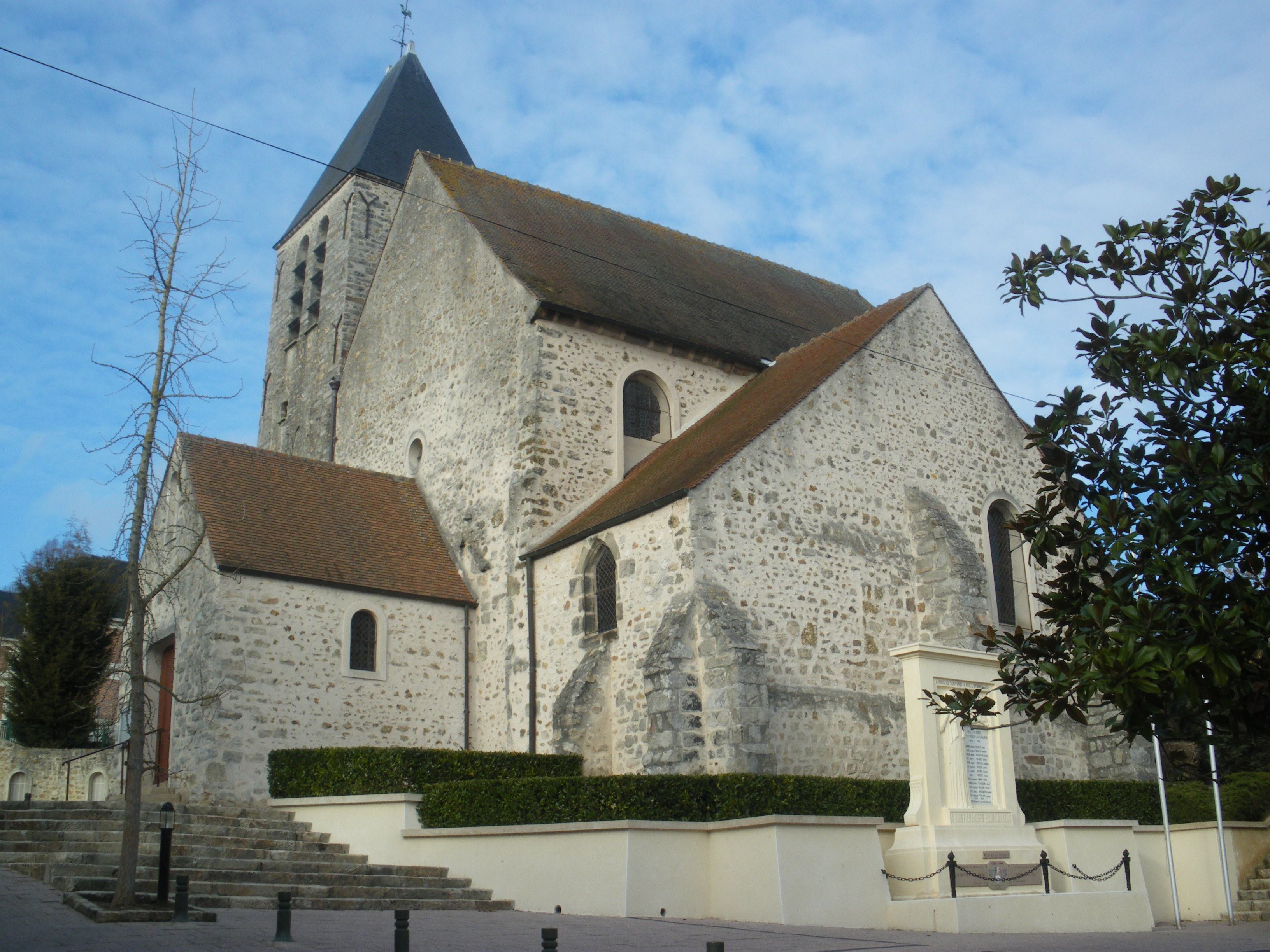 Breuillet's Church, Essonne, France